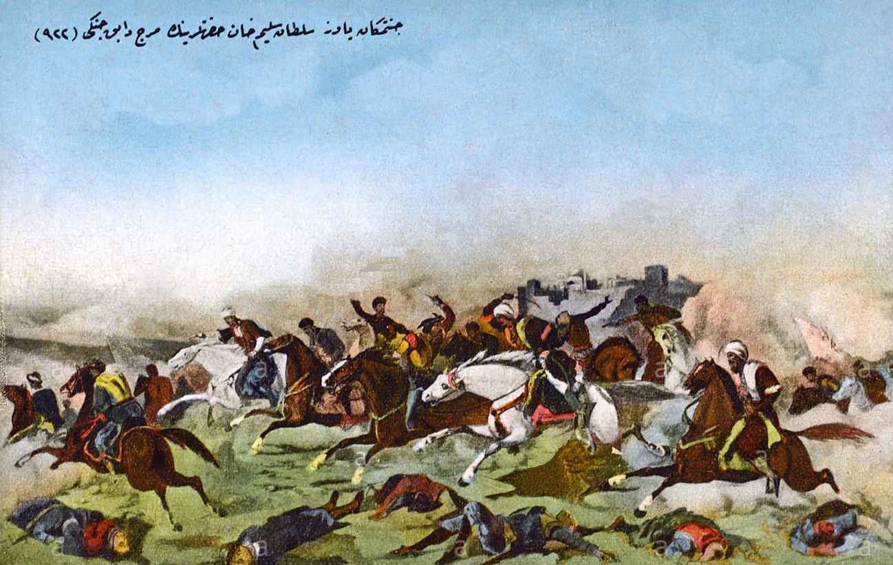 Battle of Marj Dabiq between the Ottoman Empire and the Mamluk Sultanate, in northern Levant.